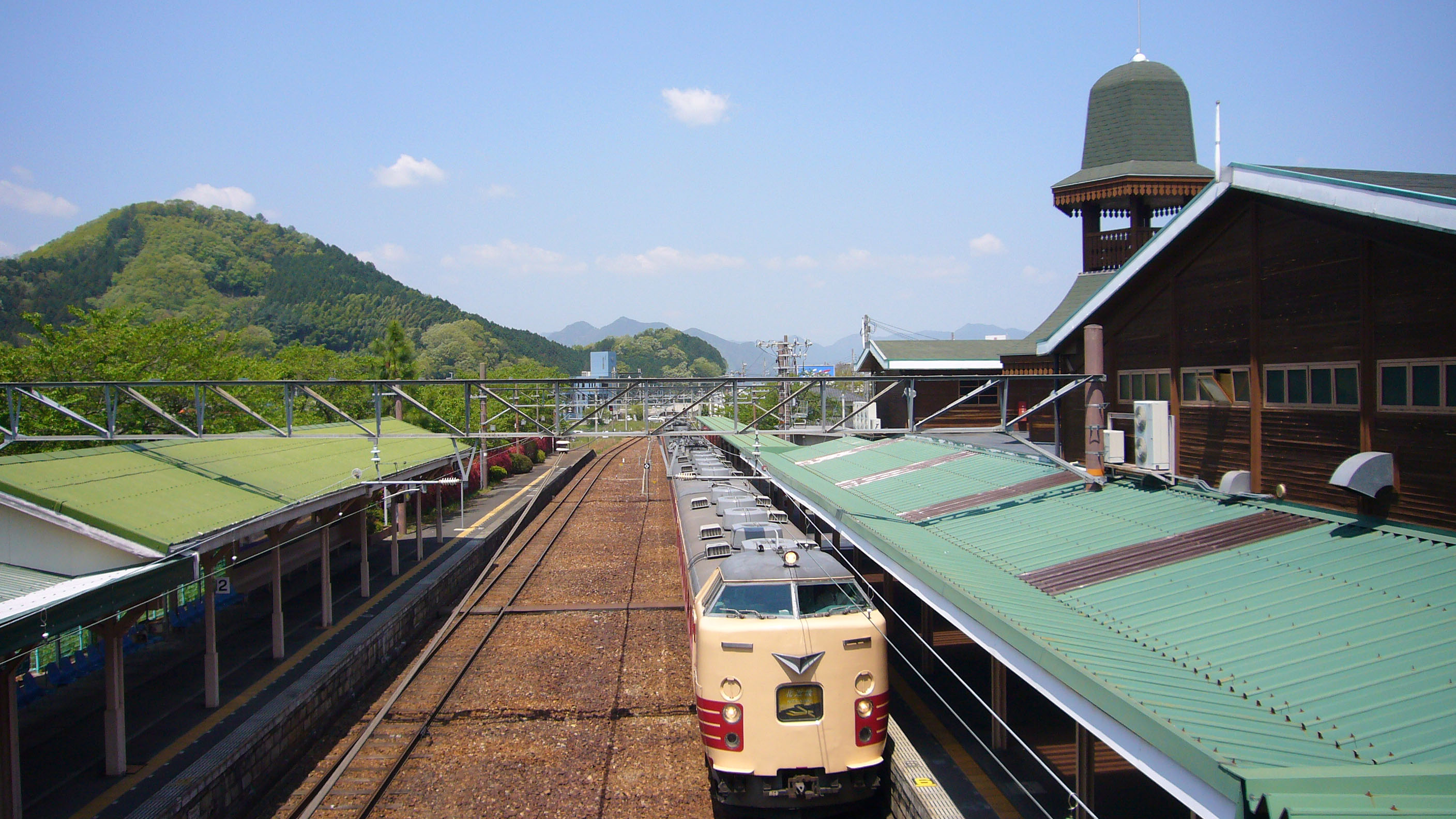 JR West 183 series EMU on a "Kitakinki" service" at Kaibara Station in Tamba, Japan